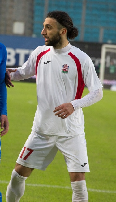 Sharif Mukhammad with PFC Spartak Nalchik in a game against FC Dynamo Moscow.